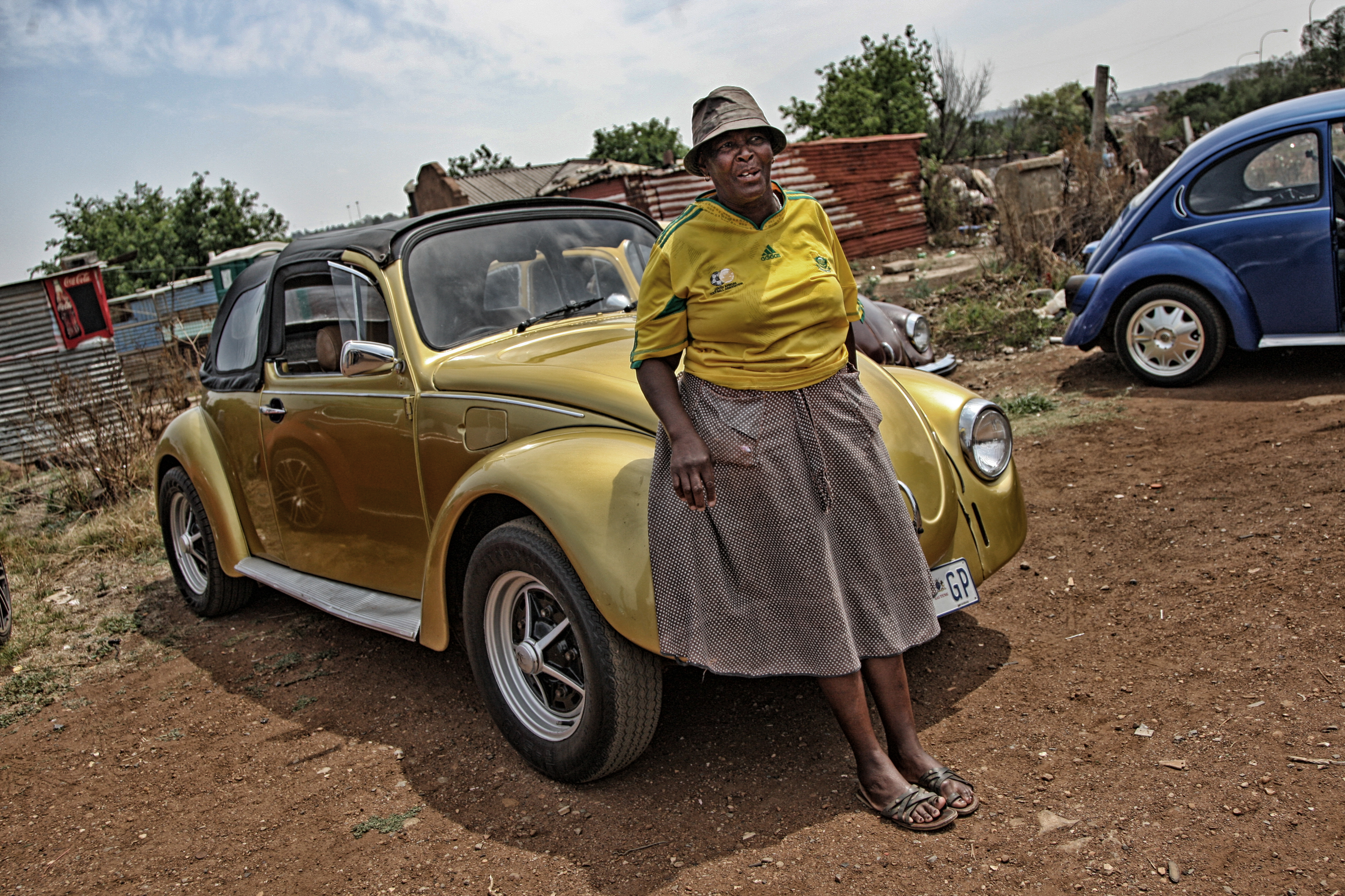 Proud Beetle Car Owner in Soweto This is an image with the theme "Africa on the Move or Transport" from: South Africa